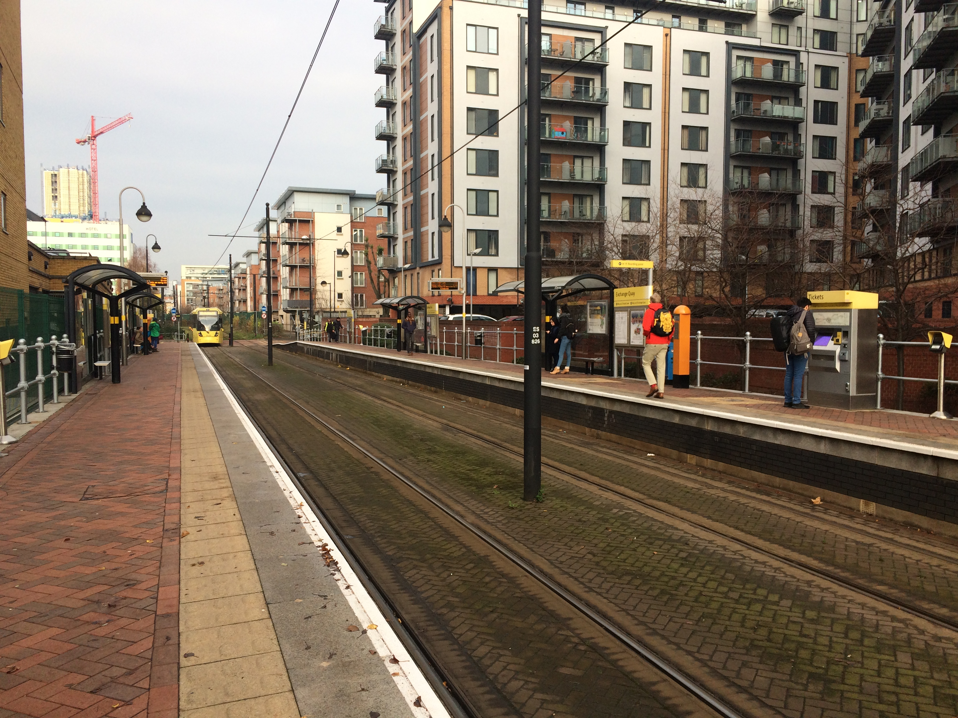 Exchange Sq